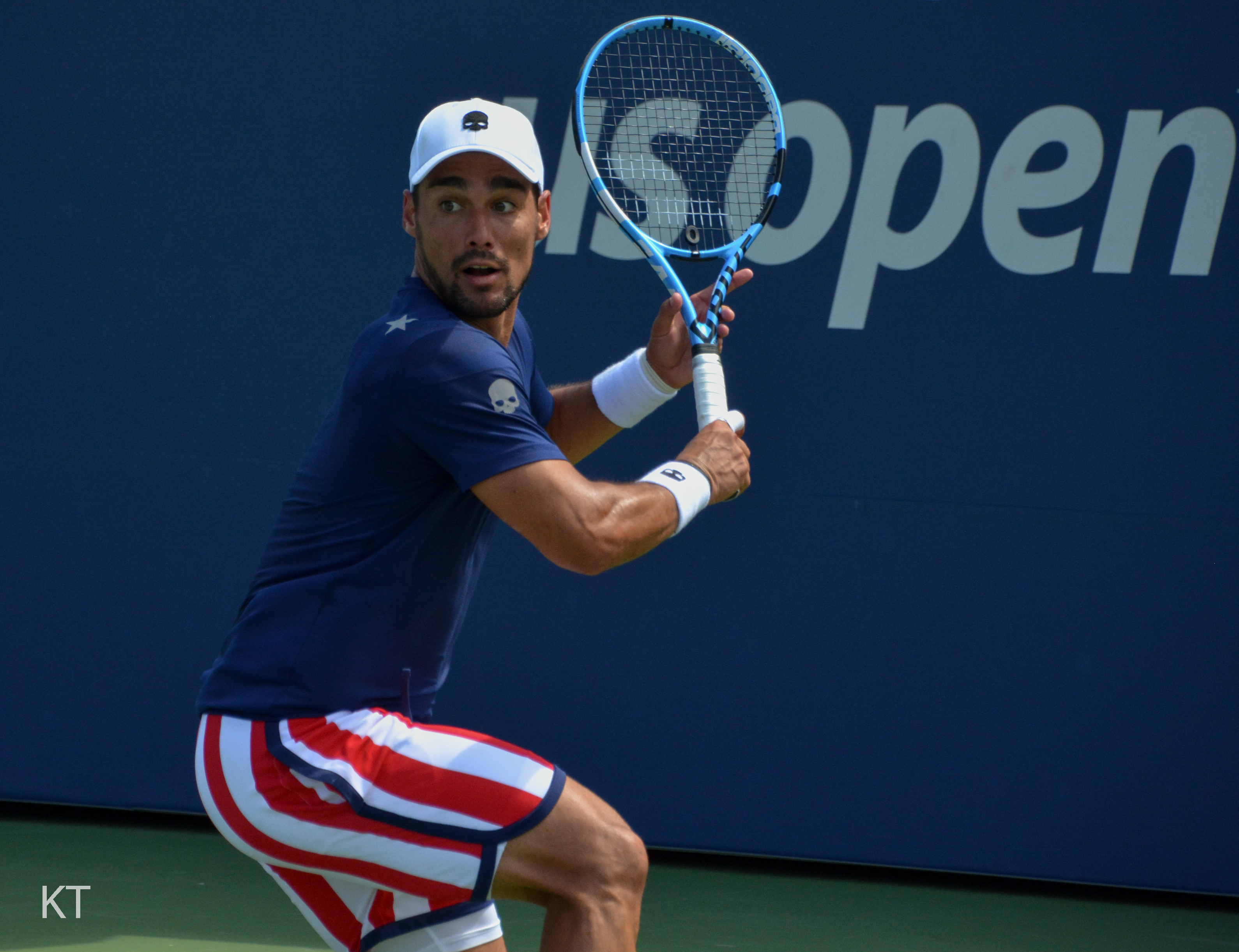 Second round of men's singles: Fabio Fognini lost to John Millman 1-6, 6-4, 4-6, 1-6. Day 4 of US Open 2018.